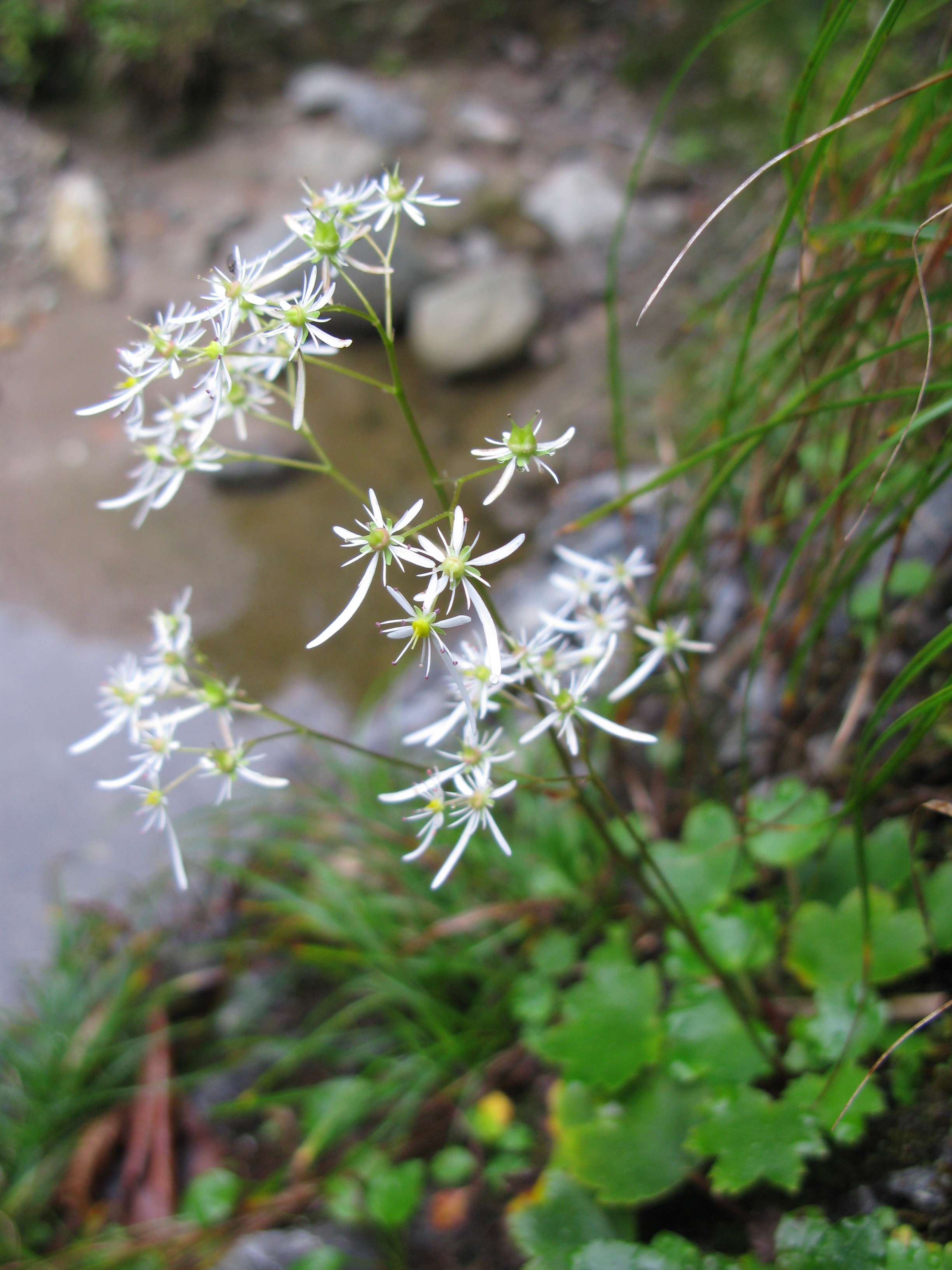 Saxifraga fortunei var. alpina, Aizu area, Fukushima pref., Japan